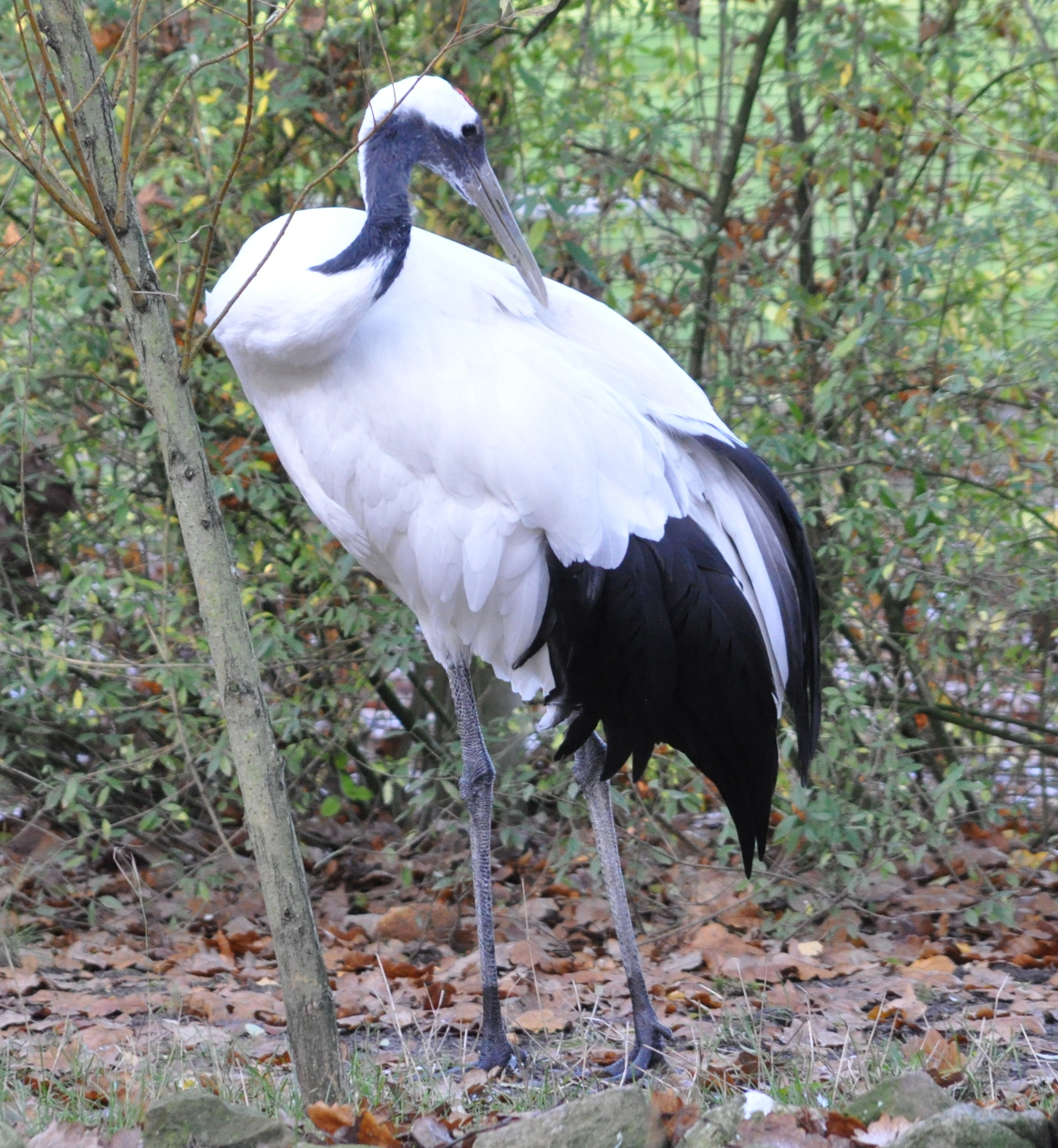 Red-crowned Crane (Grus japonensis) in the Lüneburg Heath wildlife park, Germany.